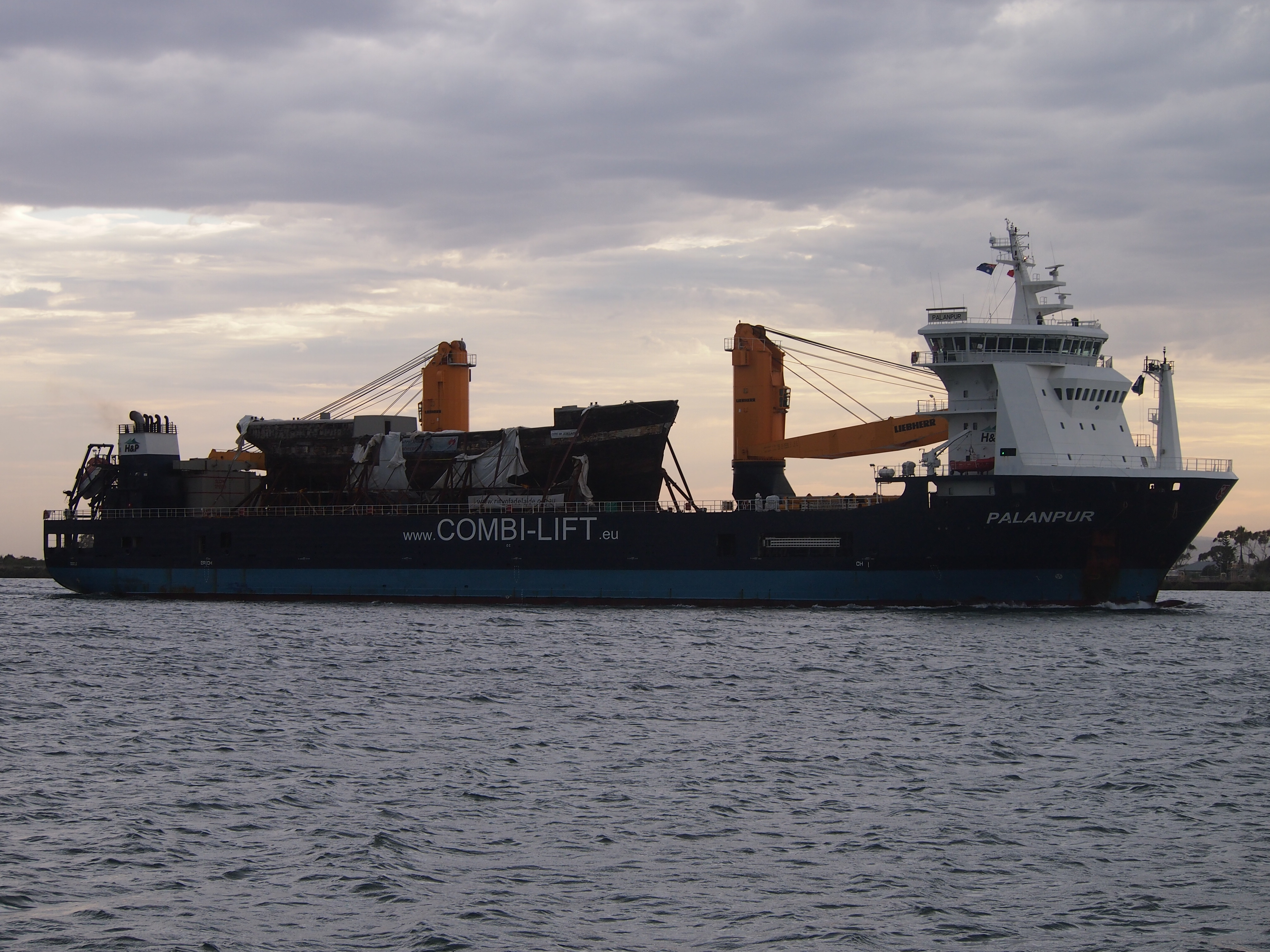 City of Adelaide clipper aboard MV Palanpur, making her way up the Port River, adjacent to Torrens IslandOriginal filename = P2030927.jpg